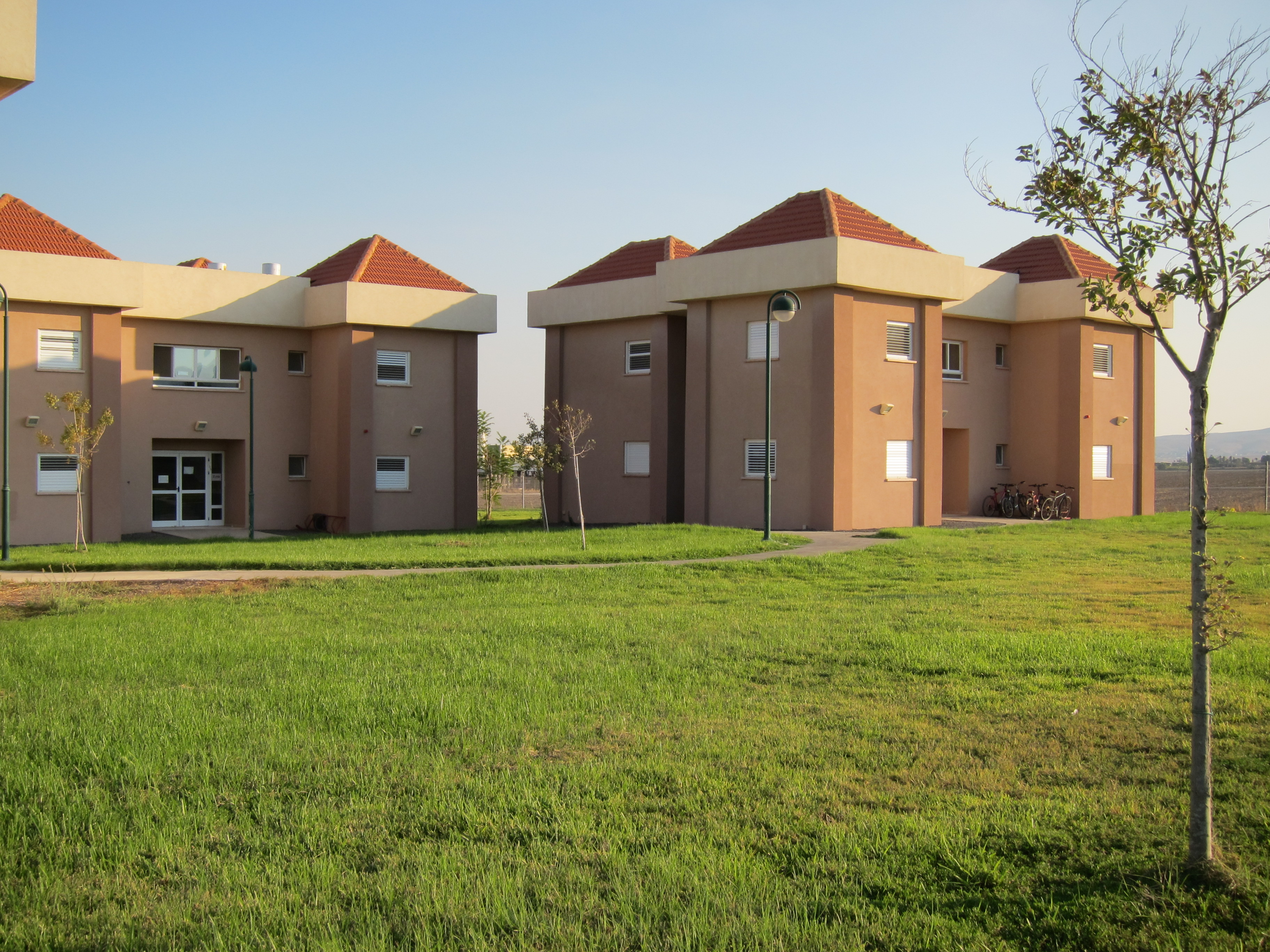 Dormitories at "Midreshet Ein HaNatziv" religious college for women, in Kibbutz Ein Hanatziv, Israel